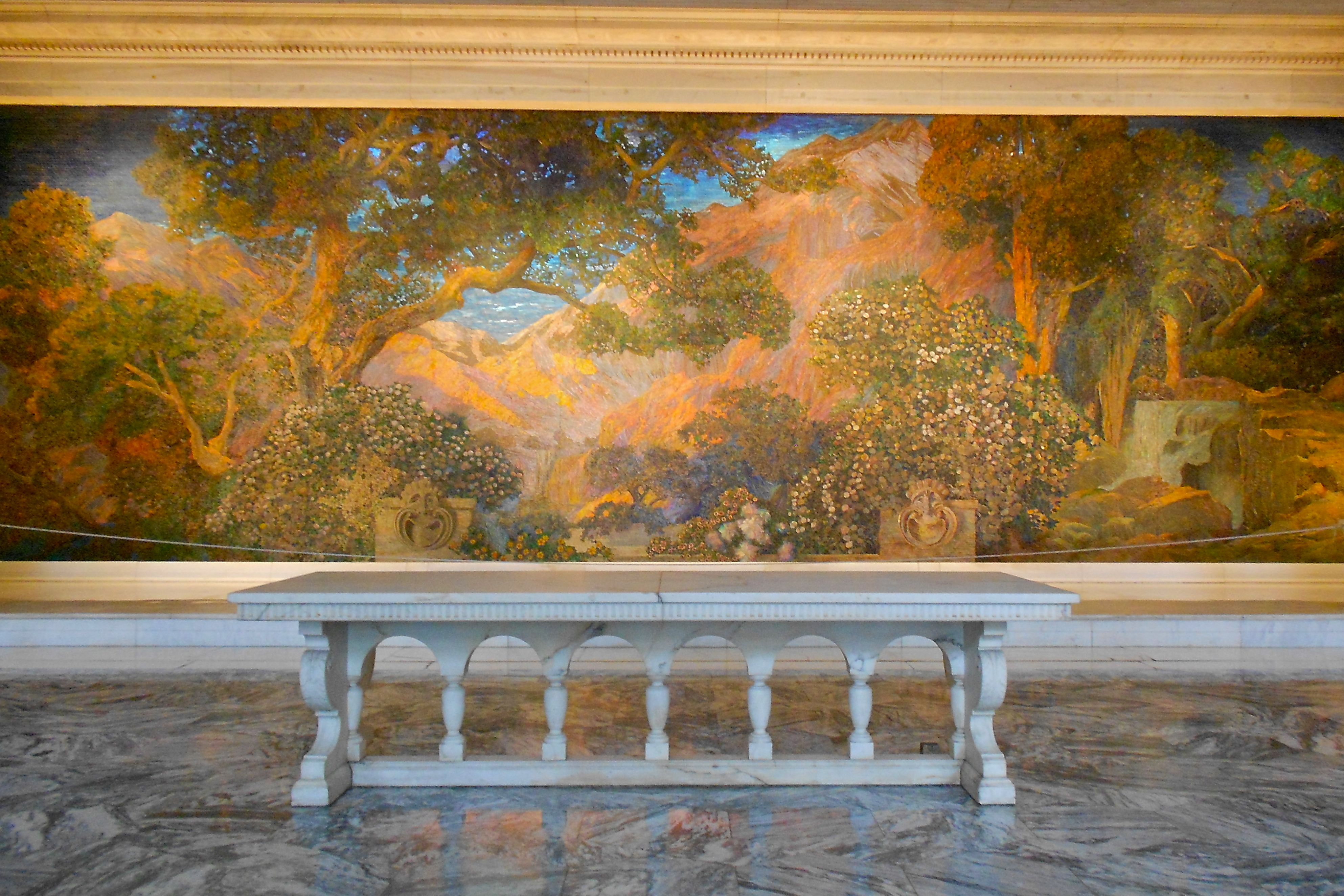 Maxfield Parrish's Dream Garden, mural in stained glass, installed by Tiffany in the Curtis Publishing building (immediately SW of Independence Hall in Philadelphia)